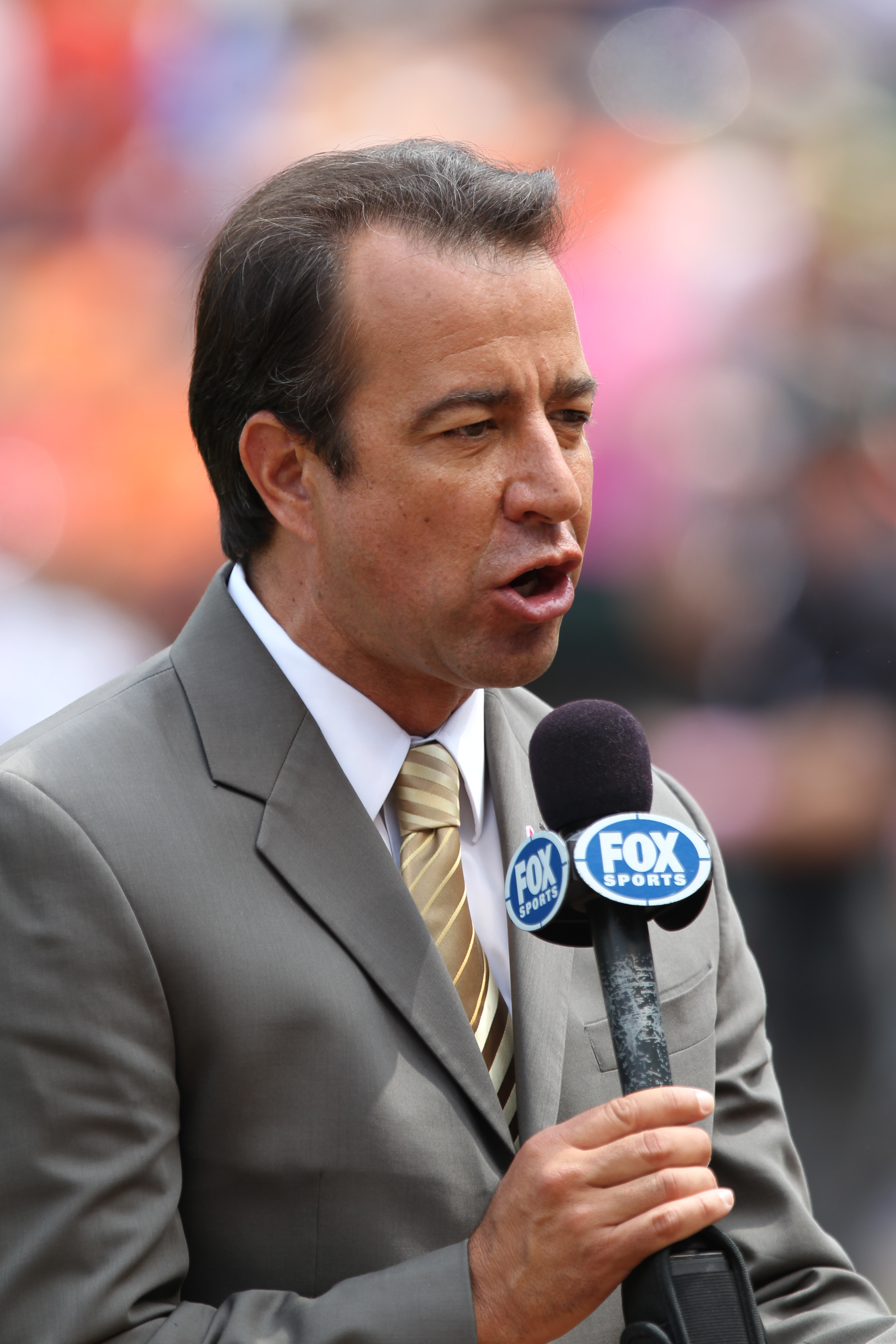 Todd Kalas, Tampa Bay Rays broadcaster and eldest son of Harry Kalas, before the game against the Baltimore Orioles on May 8, 2011 in Baltimore.